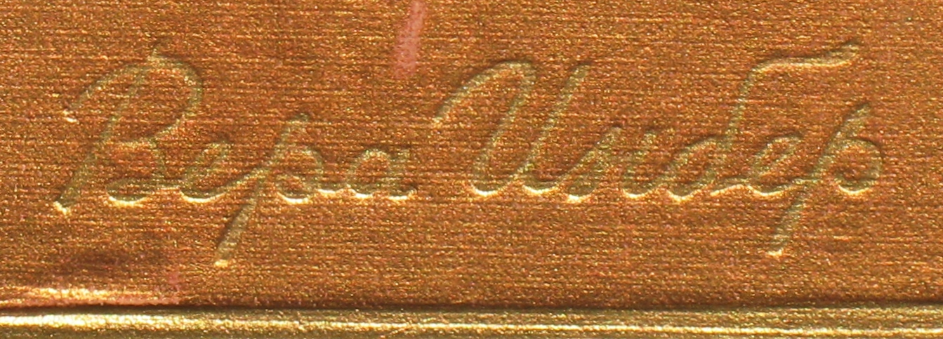 Vera Inber signature on his book.